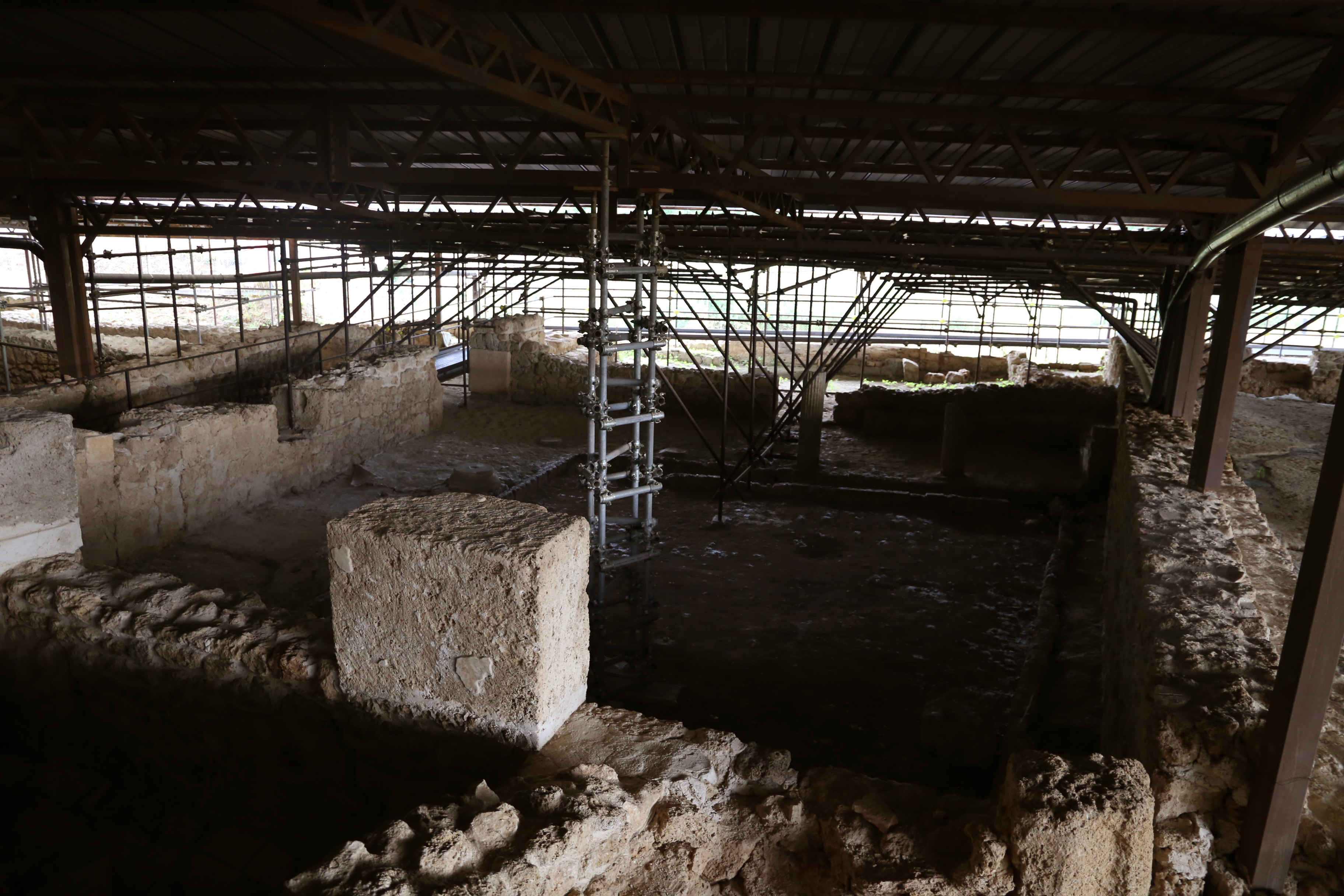 San Vincenzo al Volturno Old Abbey